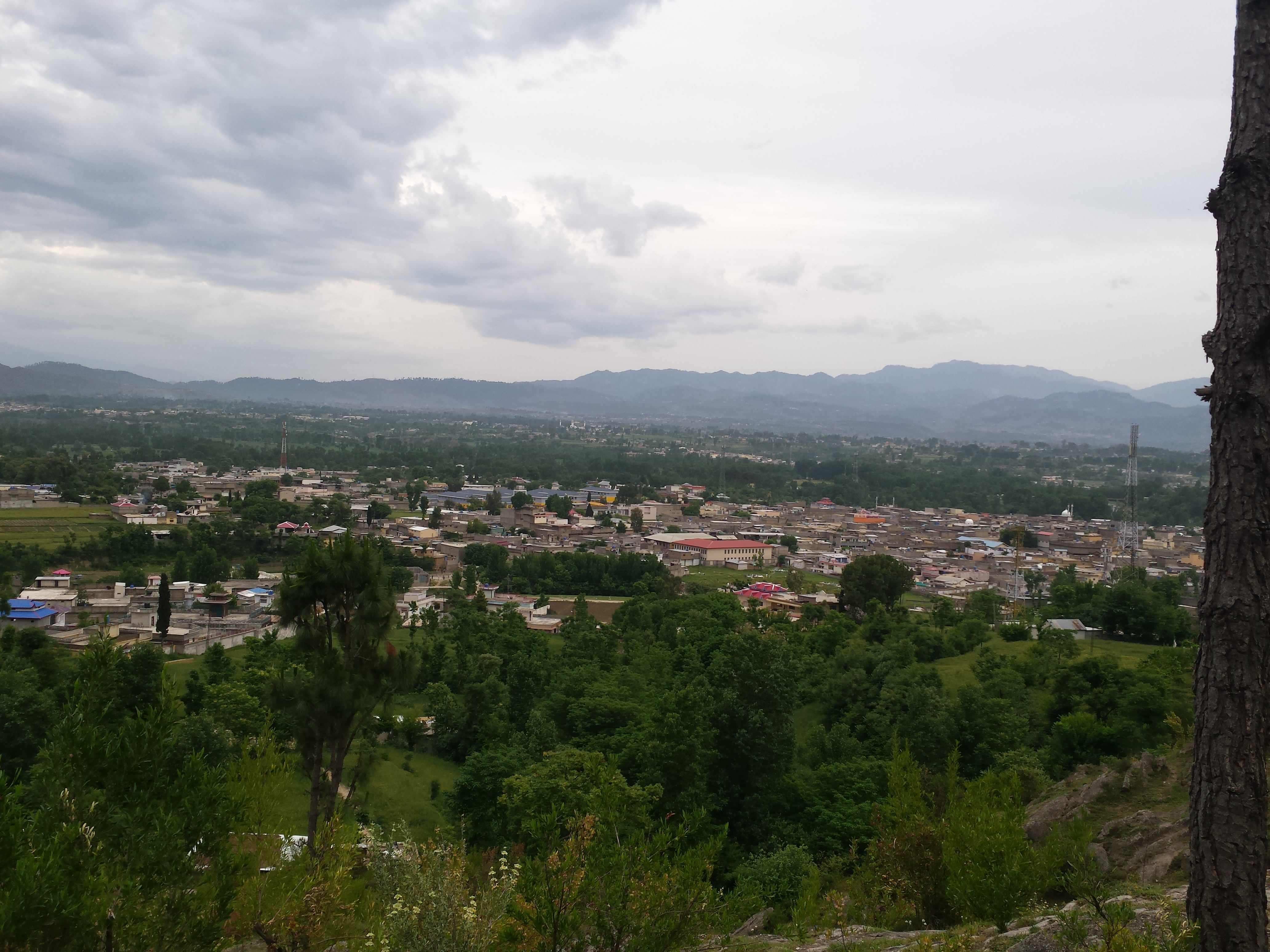 Beautiful view of Baffa town captured from nearby hill side.